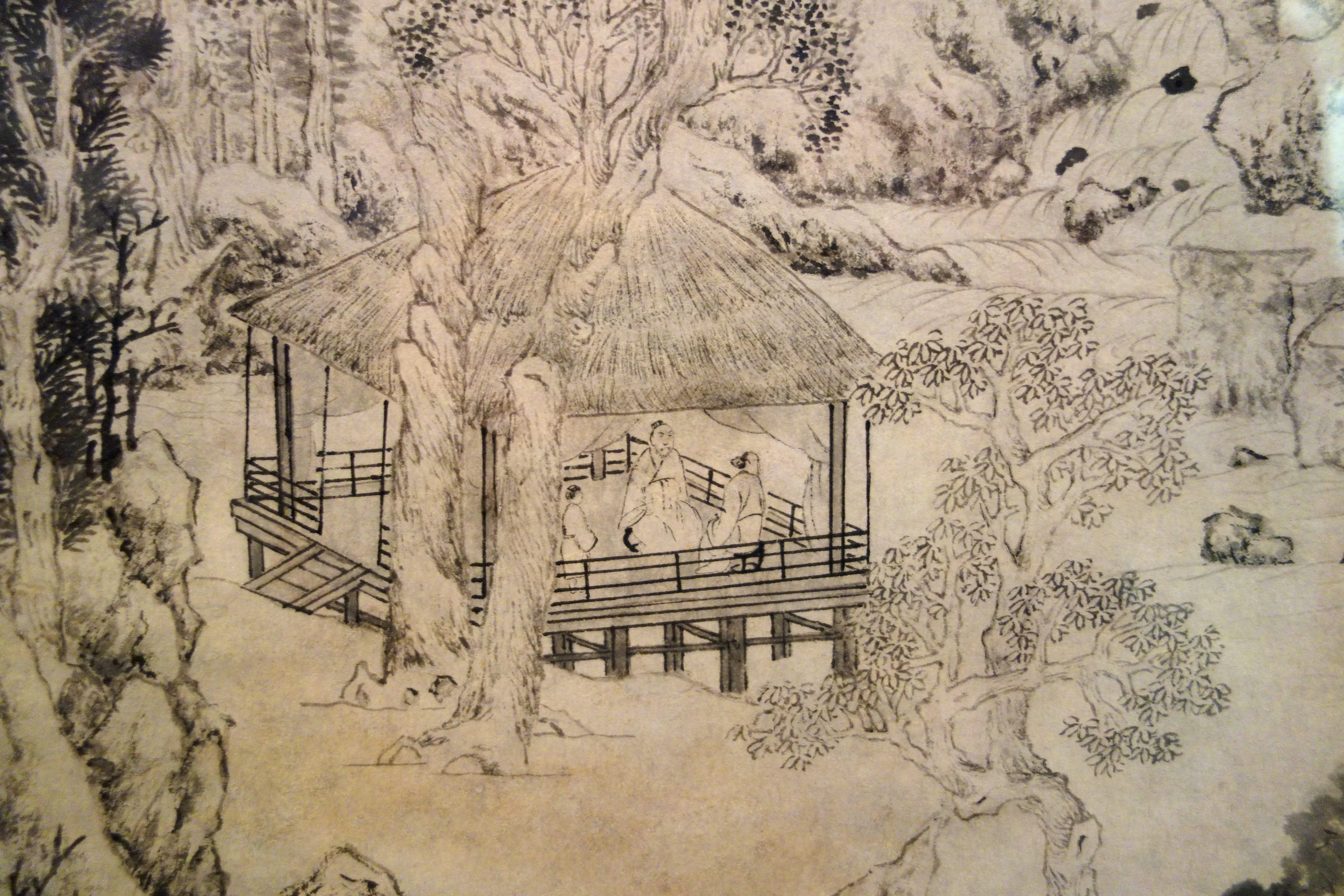 Exhibit in the Berkeley Art Museum and Pacific Film Archive, 2625 Durant Avenue #2250, Berkeley, California, USA. This museum is part of the University of California, Berkeley. This artwork is in the public domain because the artist died more than 70 years ago. Photography of this exhibit was permitted without restriction.